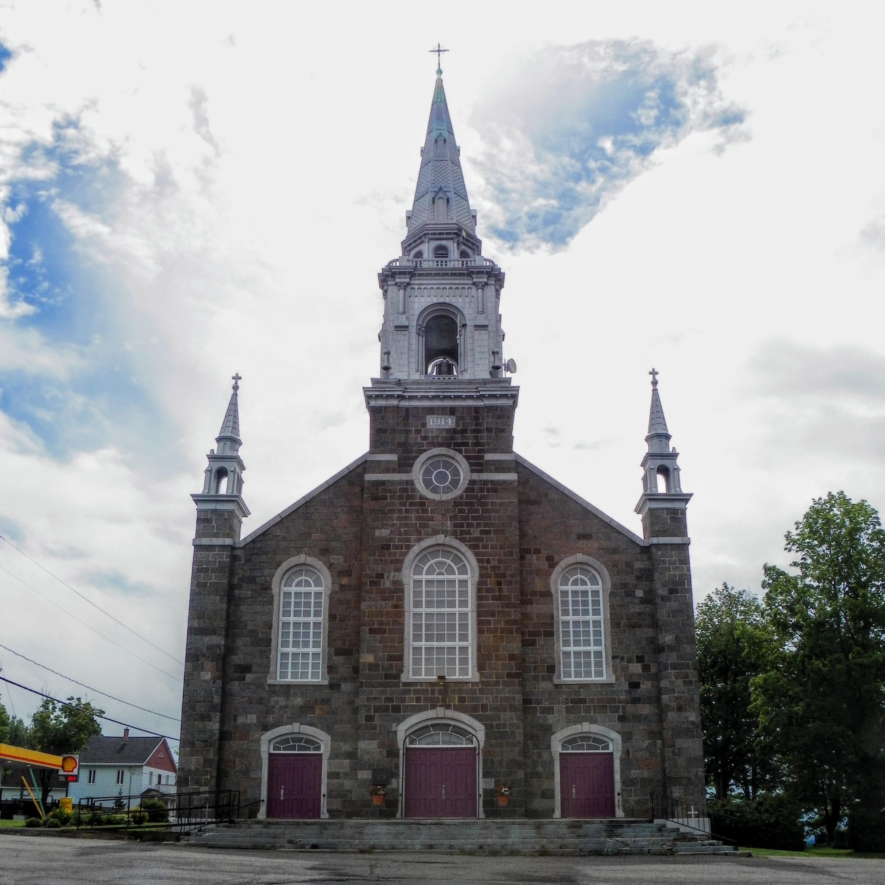 Saint-Sylvestre church in Saint-Sylvestre, Quebec.